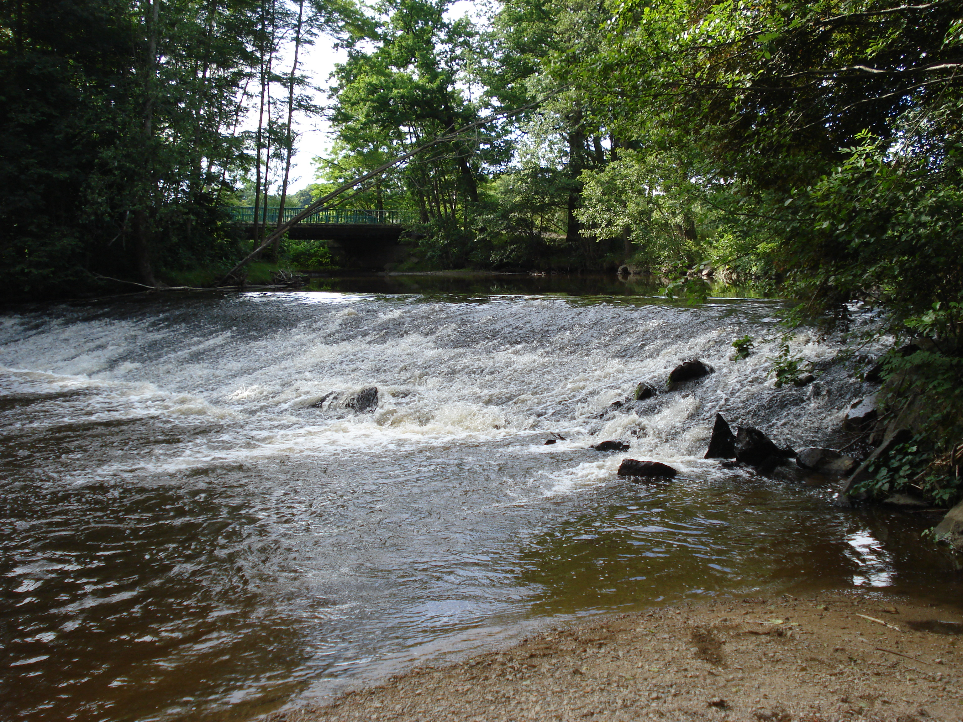 Ste-Agathe-la-Bouteresse (Loire, Fr),small dam in the Lignon du Forez